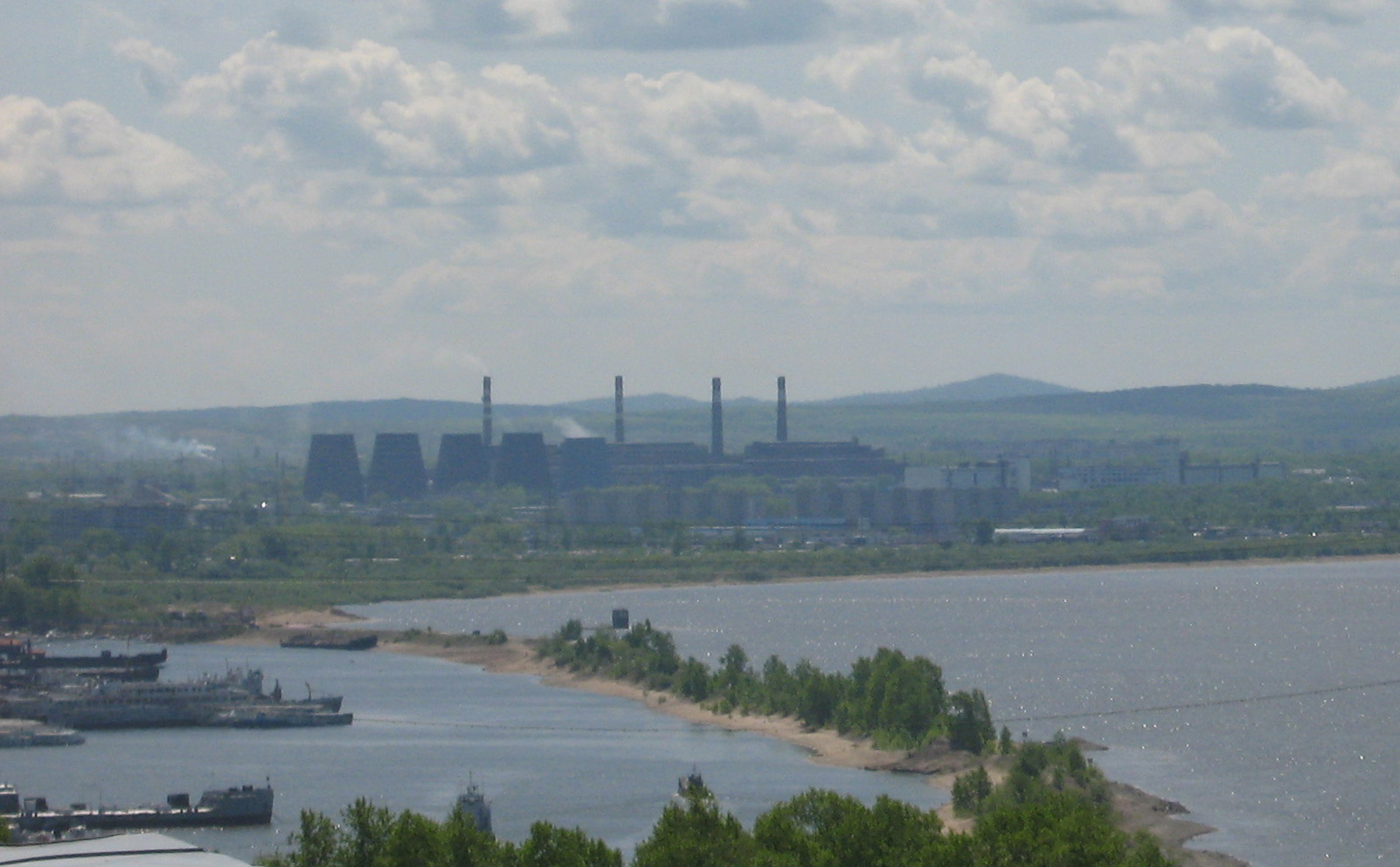 Khabarovsk's Power and heat plant #1